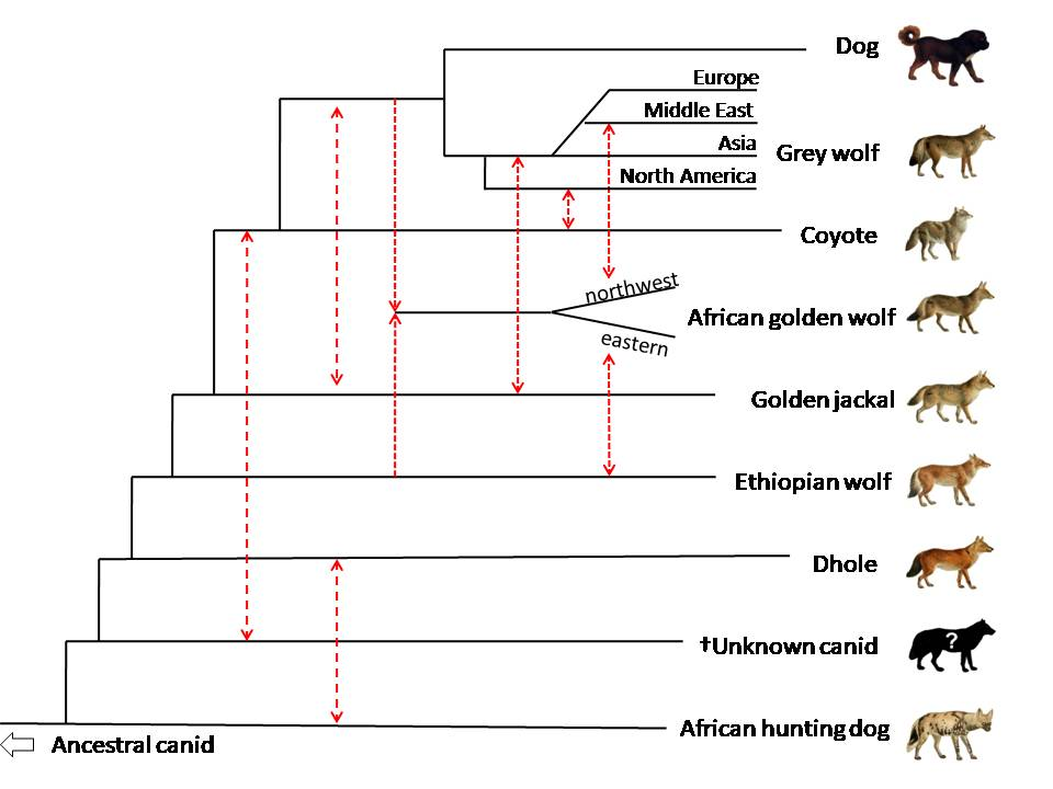 Canis hybridisation in the distant past, with cross-hybridisations based on Gopalakrishnan et al 2018